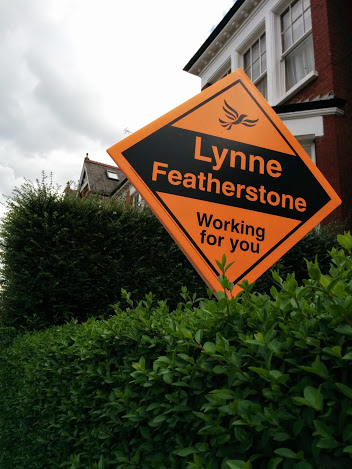 A stakeboard showing support for the Liberal Democrat candidate Lynne Featherstone during the 2015 general election campaign, in the constituency of Hornsey & Wood Green